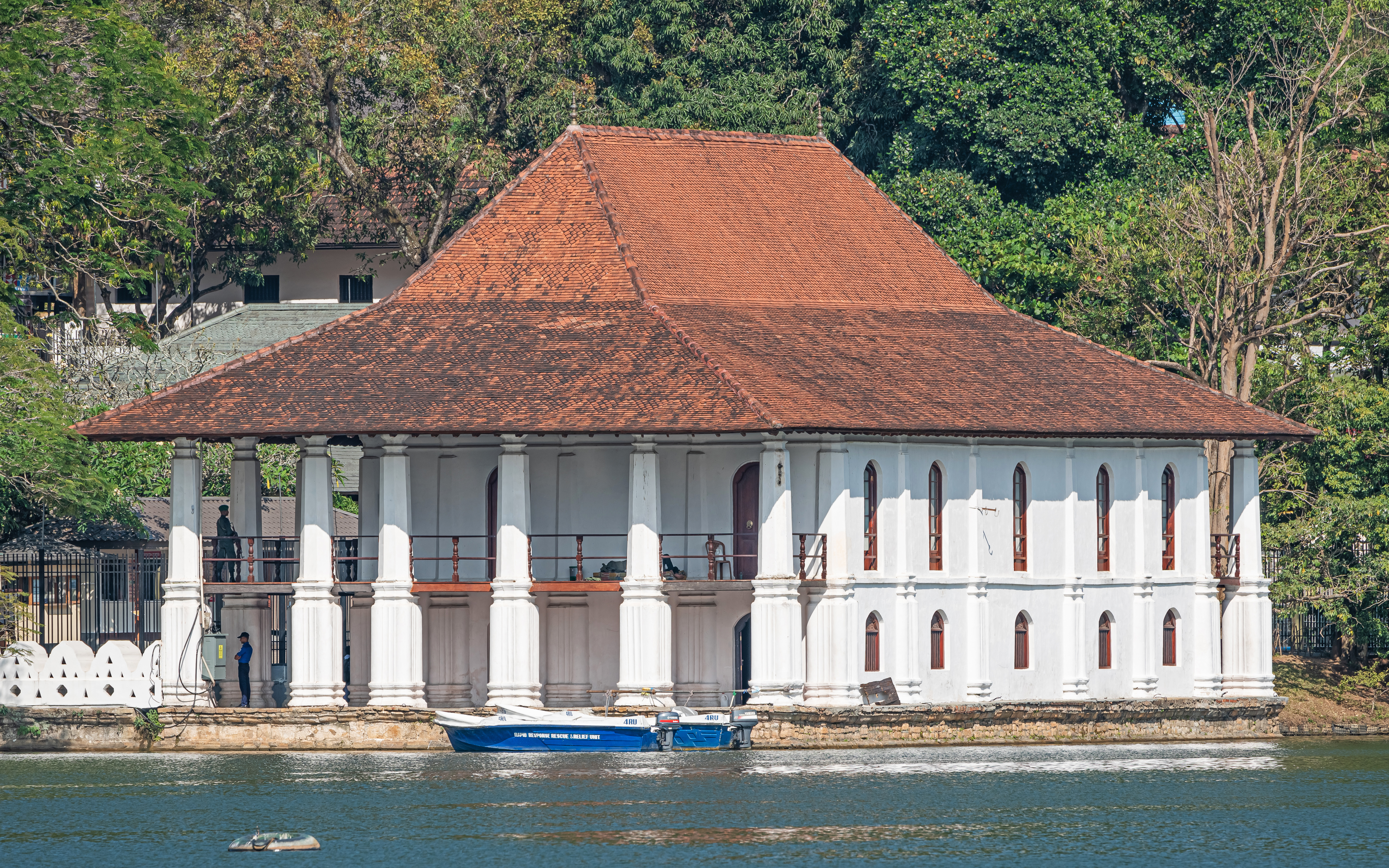 View of the Queen's Bath from the south bank of Kandy Lake in Kandy, Sri Lanka